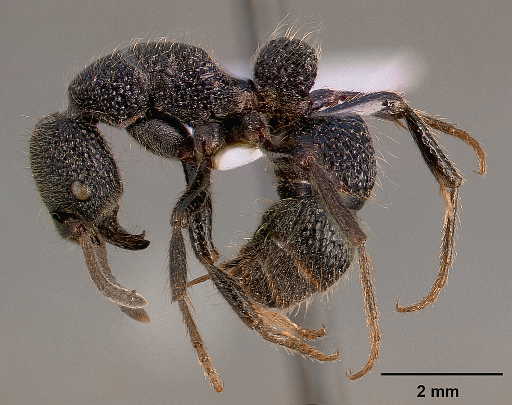 Profile view of ant Bothroponera pumicosa specimen sam-hym-c000154a.